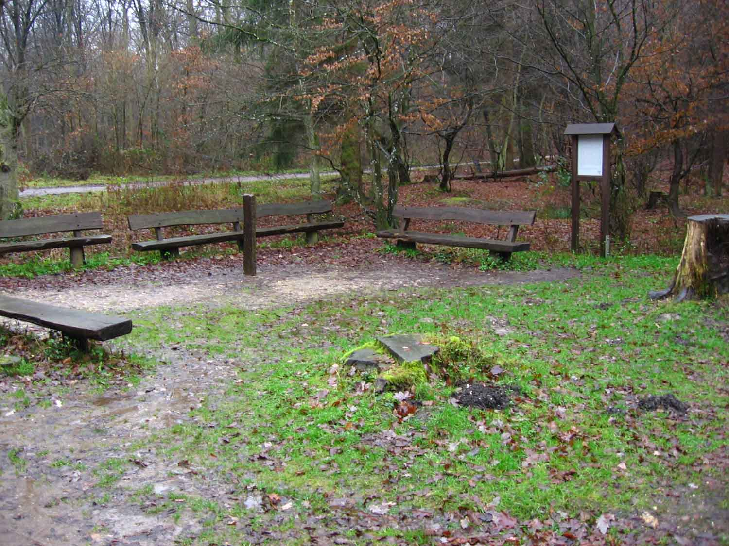 Der Eiserne Mann (Iron Mann) located in Kottenforst-Ville nature reserve Germany. Taken by Chris Walters on vacation at 50.70757N by 006.96105E on 12-21-2005.